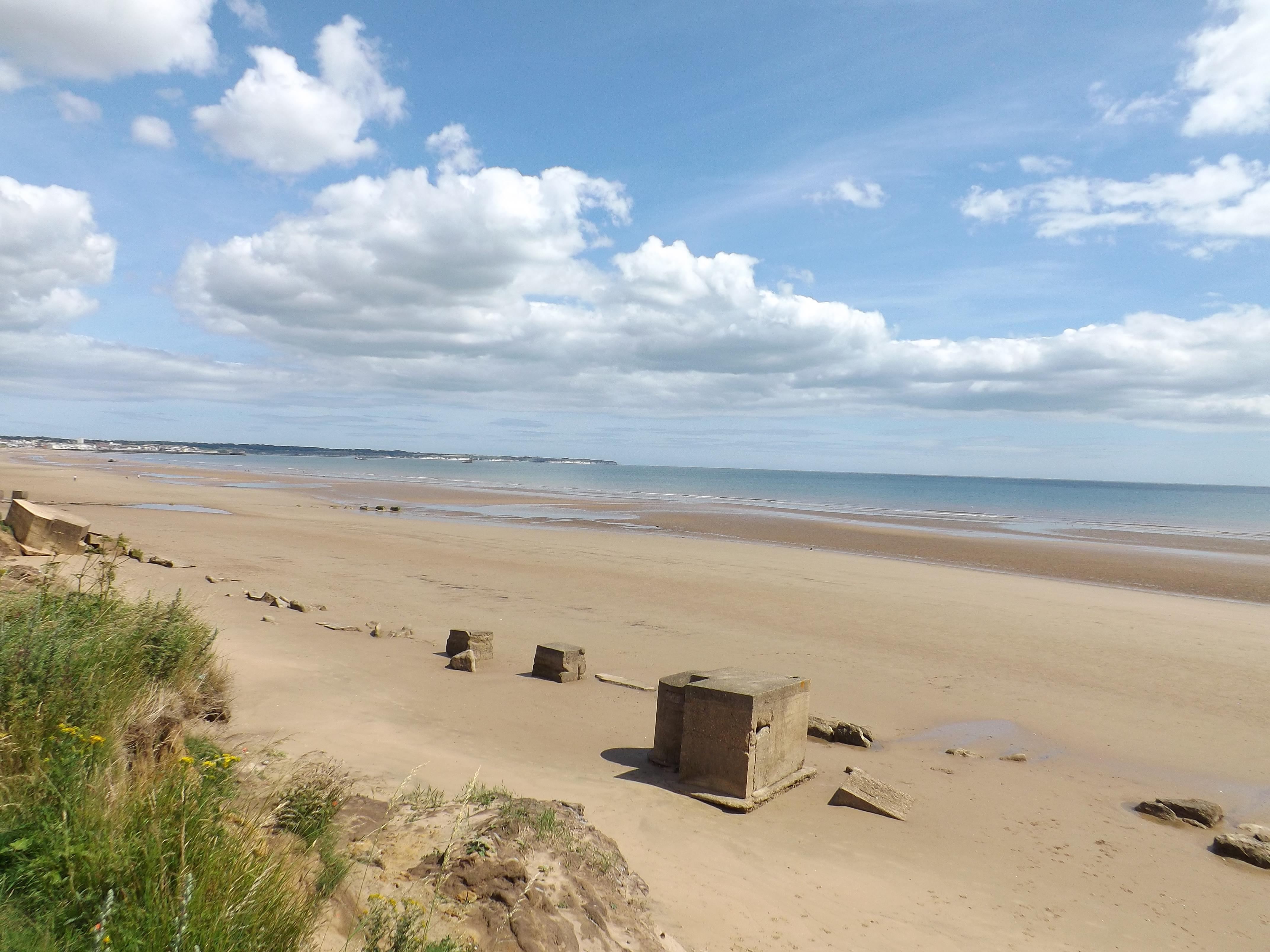 Fraisthorpe Beach, Fraisthorpe, East Riding of Yorkshire, England.Showing Bridlington and Flamborough on the horizon.